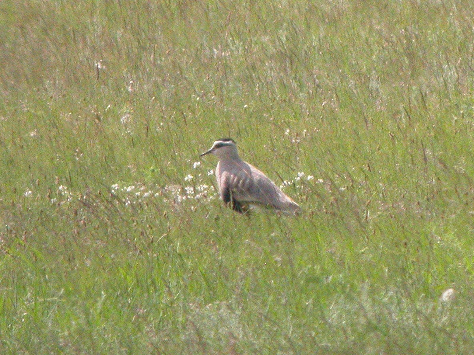 AKA Sociable Plover Vanellus gregarius This species is RDB Critically Endangered This photo was taken on the steppe south of Astana. On this birding trip, I gave up on using an adapter and grabbed some hand-held digiscoping shots.